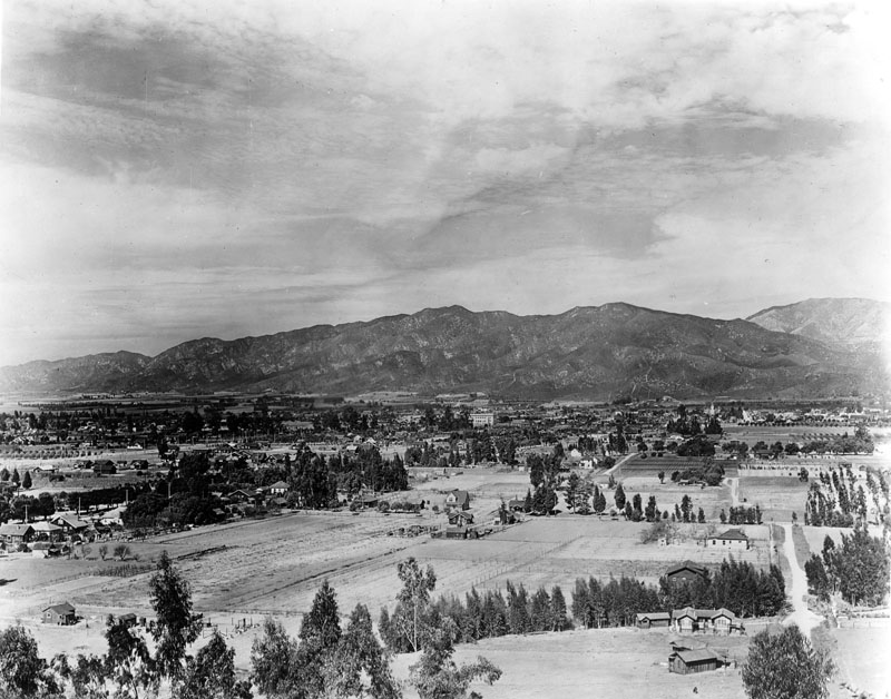 Panoramic view of Glendale, taken from Forest Lawn Hill circa 1910.